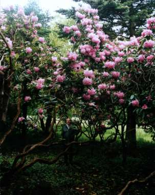 A Rhododendron sort by the name 'Onkel Dines'